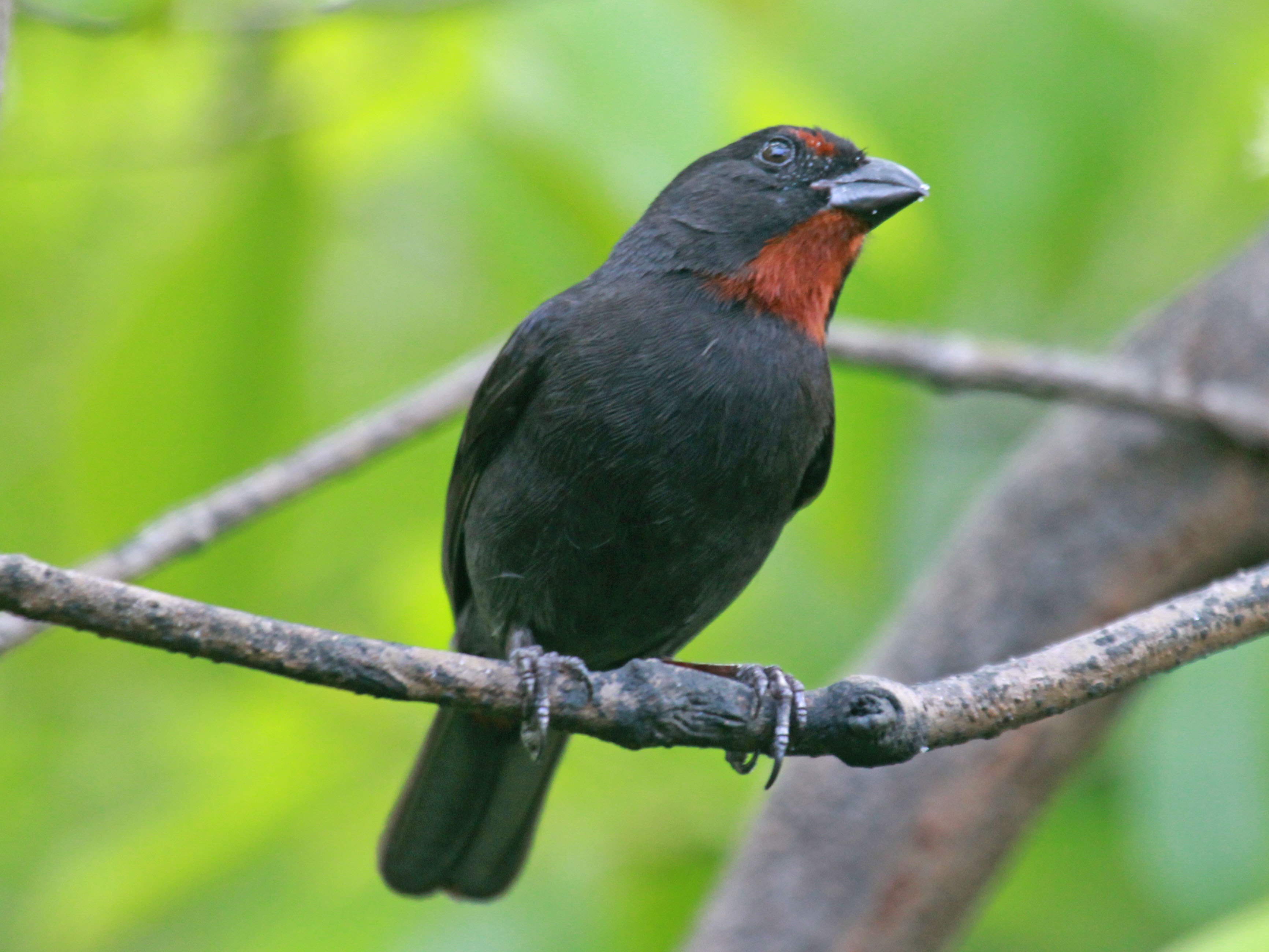 Lesser Antillean Bullfinch (Loxigilla noctis) on St. John Island, US Virgin Islands. Adult male.